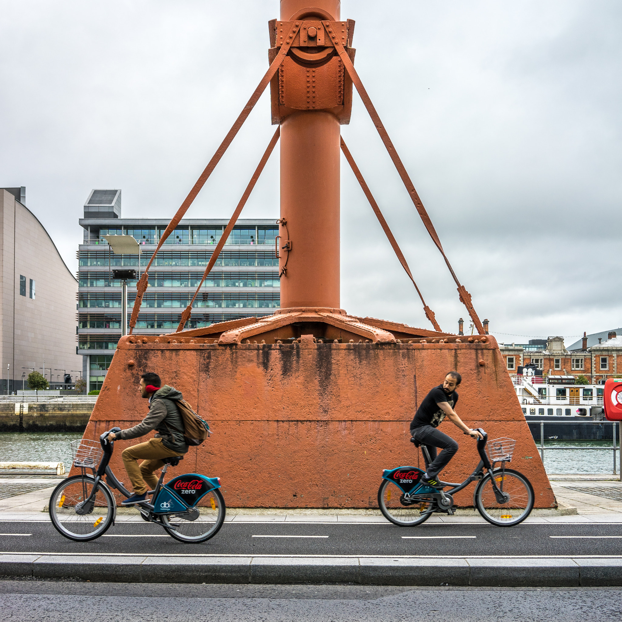 500px provided description: This is a free picture released under Creative Commons Attribution 2.0 Generic. Feel free to use and share this picture but please give me credit linking my website or my Flickr account. More info about me on If you like my pictures please like my Facebook page ( or follow me on Twitter ( and Instagram ( Thanks! [#street ,#river ,#europe ,#urban ,#photo ,#sony ,#35mm ,#bike ,#men ,#photography ,#bikes ,#ireland ,#candid ,#dublin ,#liffey ,#quays ,#sony a7 ,#sony fe 35mm]